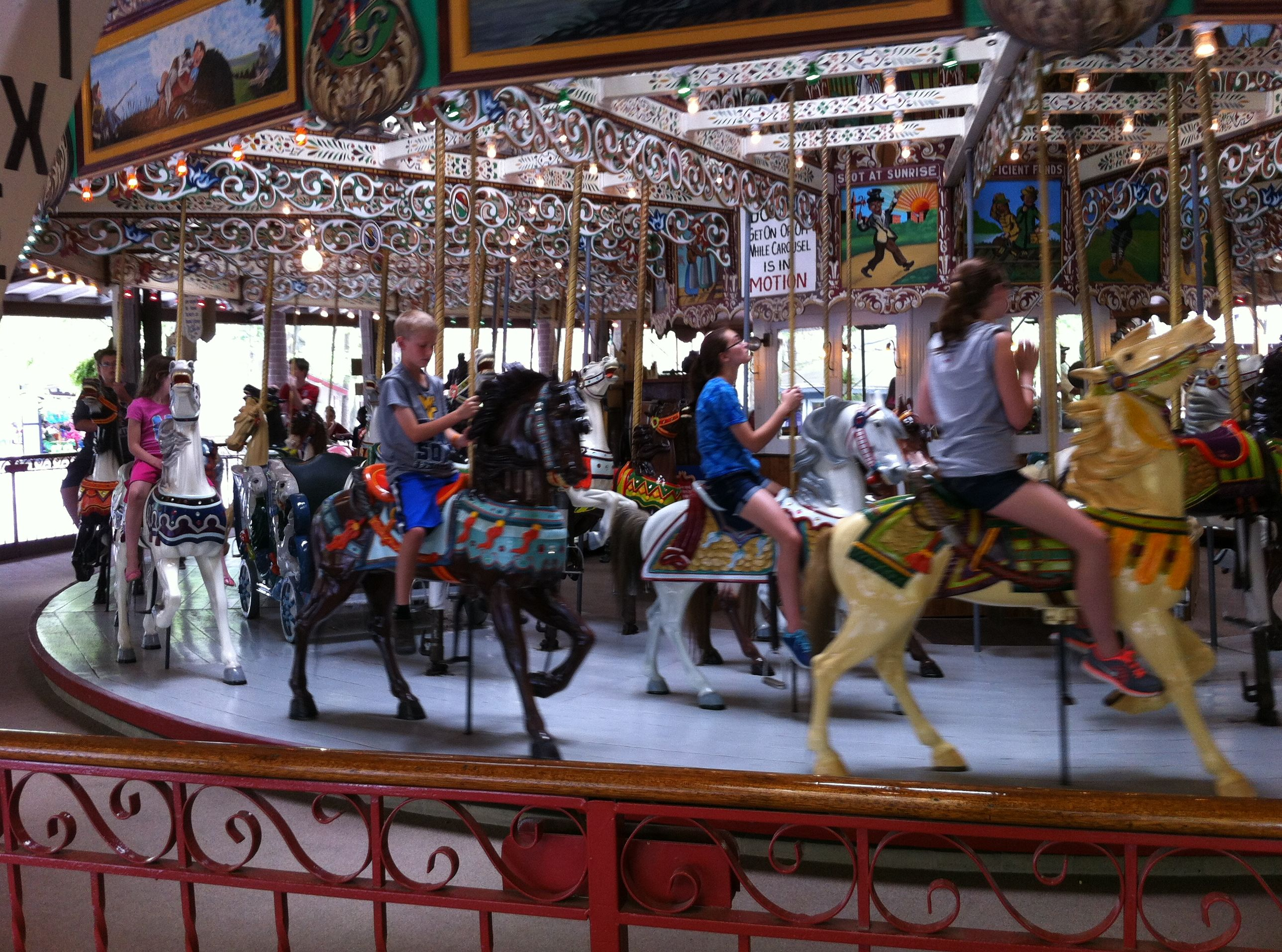 The grand carousel at Knoebels Amusement Resort in Elysburg, Pennsylvania. It was made in 1912.